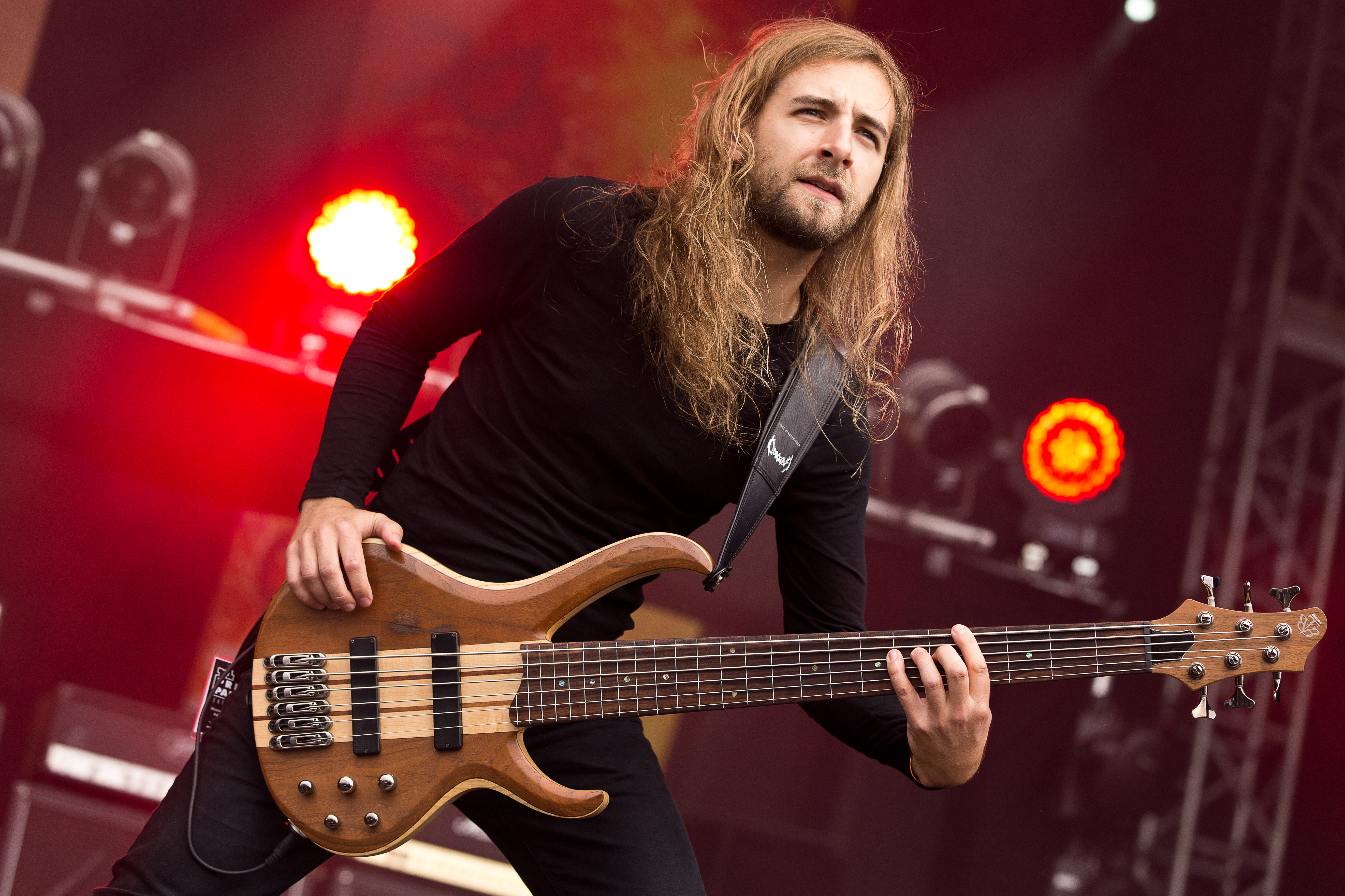 The German technical death metal band Obscura at the Party.San Metal Open Air 2016 in Obermehler-Schlotheim/Germany.